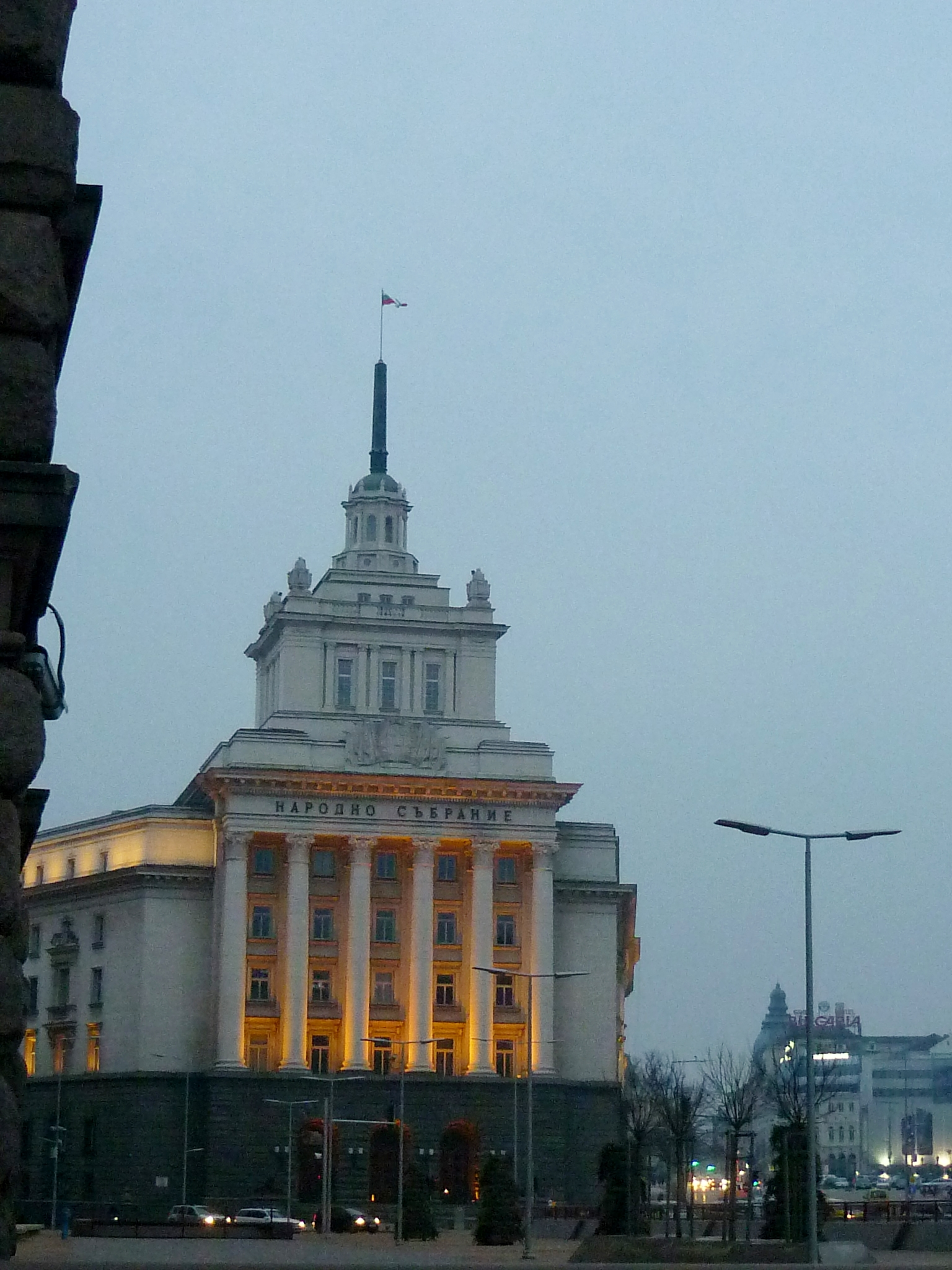 Palace of socialistic Party, Sofia